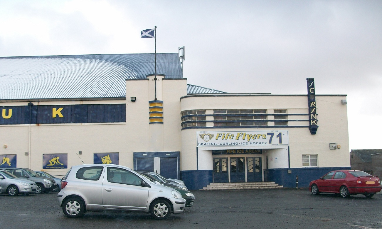 Photograph of Fife ice rink in Kirkcaldy, Scotland.